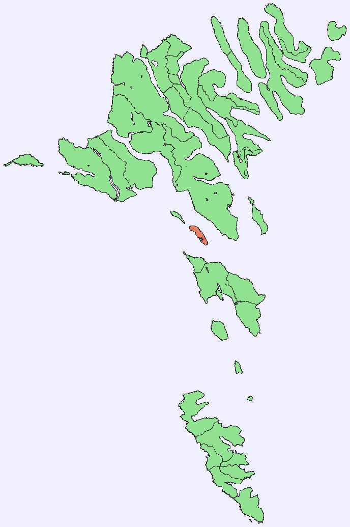 Position of Hestur, Faroe Islands